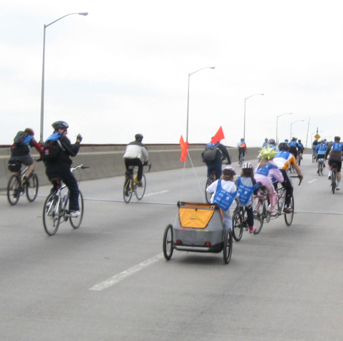 Tandem and two trailer bikes add up to a family of four and a cargo trailer. Looking southeast on a cloudy late morning as they climb the bridge over Newtown Creek to McGuiness Boulevard in Greenpoint, Brooklyn under cloudy spring midday skies.